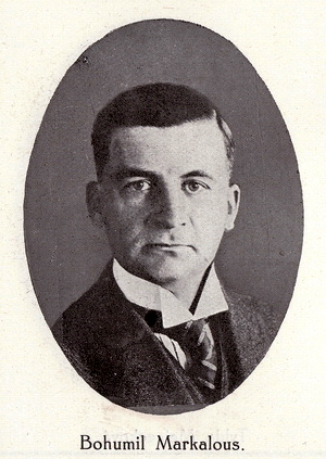 Jaromír John, (Bohumil Markalous) (1882–1952), Czech writer